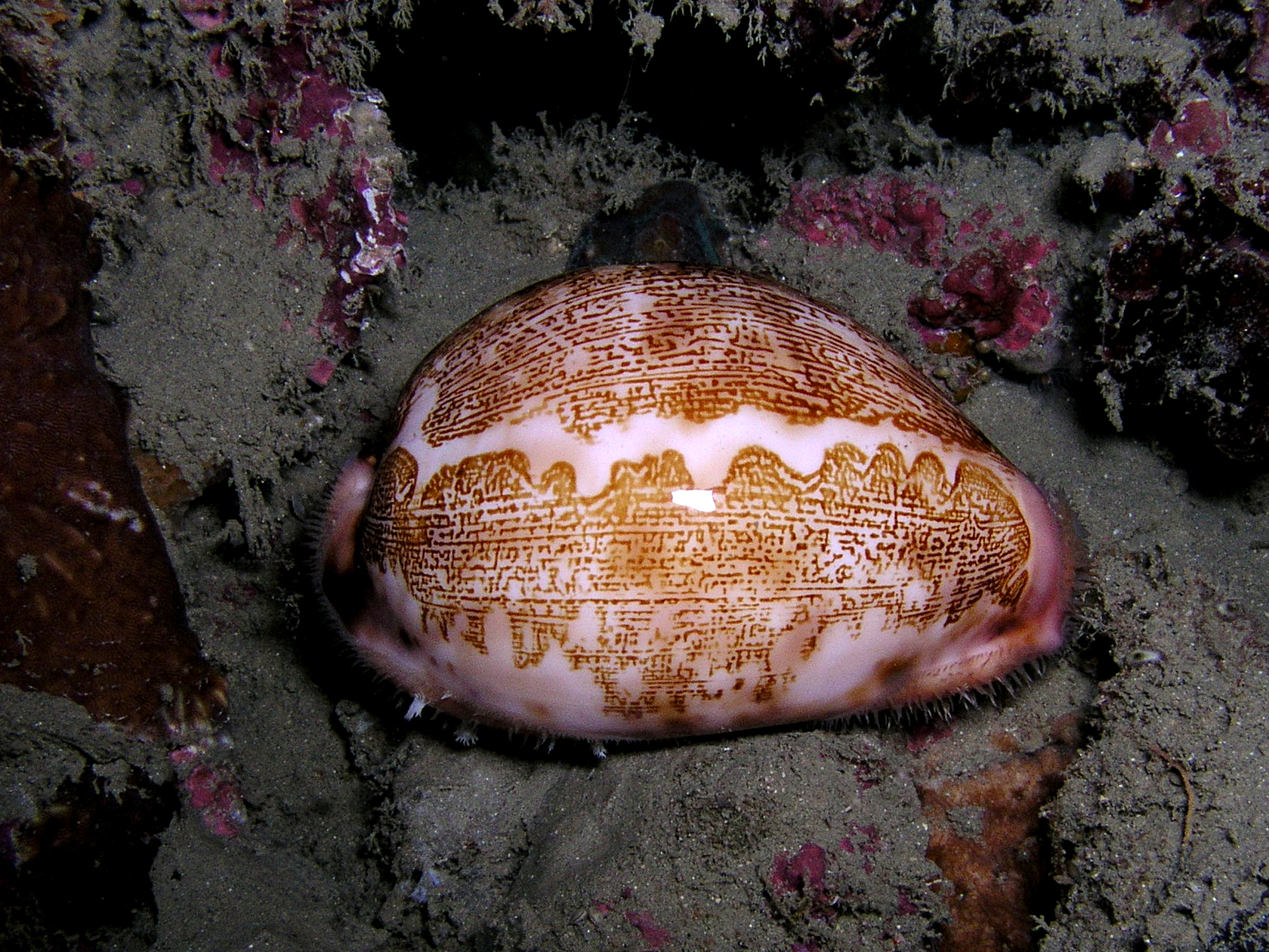 A map cowry Leporicypraea mappa (synonym : Cypraea mappa) from North coast East Timor.